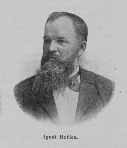 Portrait of Ignát Hořica (1859-1902), Czech soldier, writer, journalist and politician